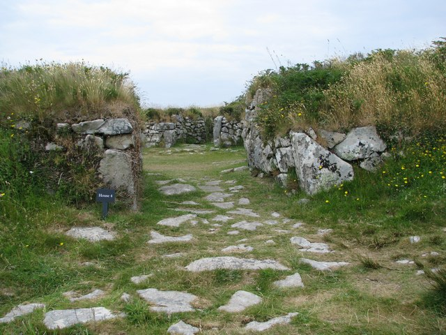 Remains of doorway at Chysauster ancient village